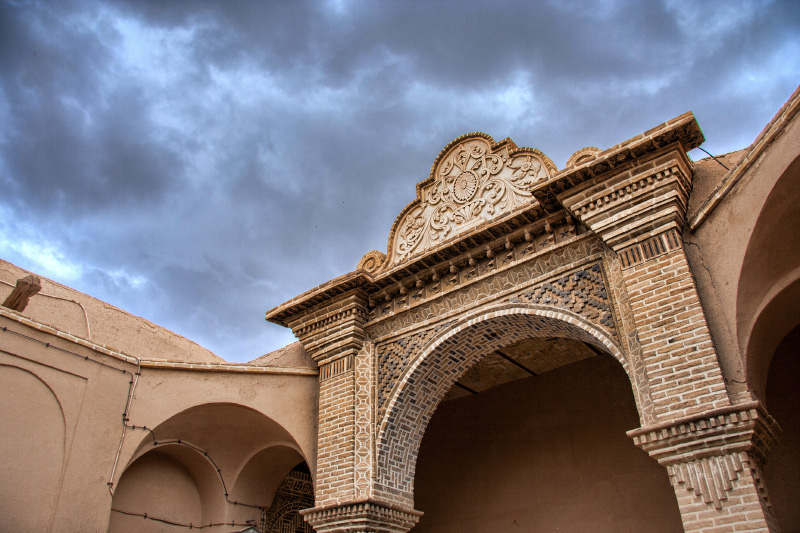 نمایی از سردر دربند صدرالفضلا واقع در بافت تاریخی اردکان عکس: امیررضا توسلی